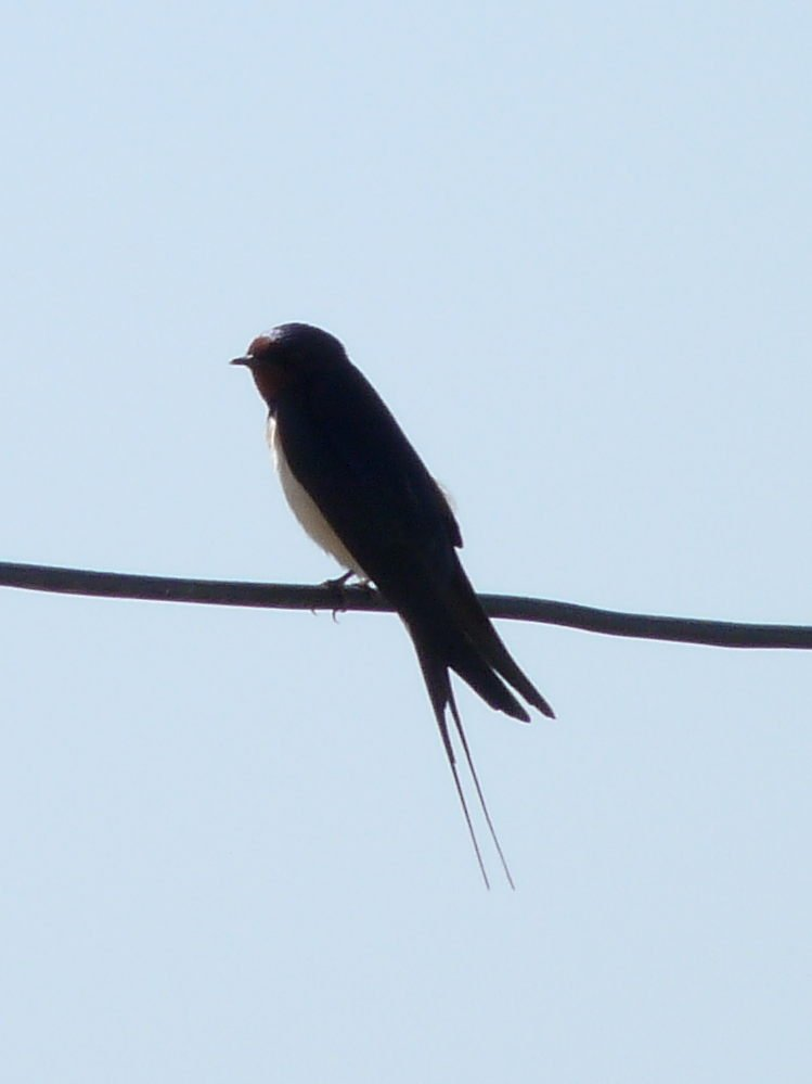 Swallow